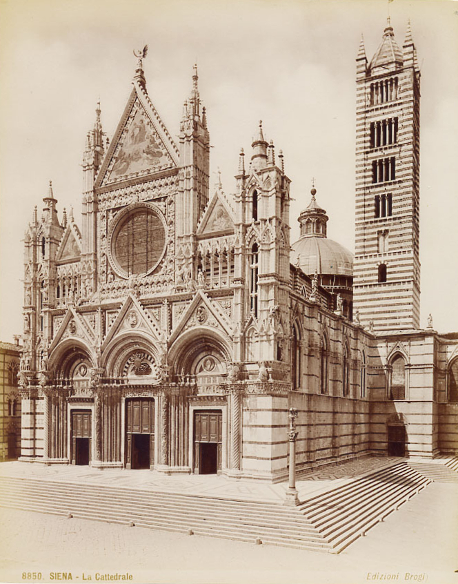 Giacomo Brogi (1822-1881) - "Siena - The cathedral". Catalogue # 6850. 1870s. Today.